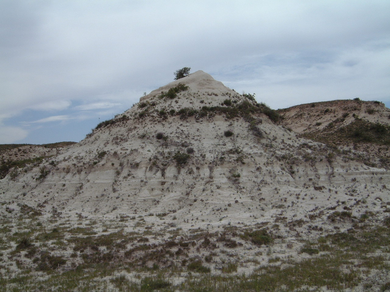 Mount Blanco in Crosby County, Texas.